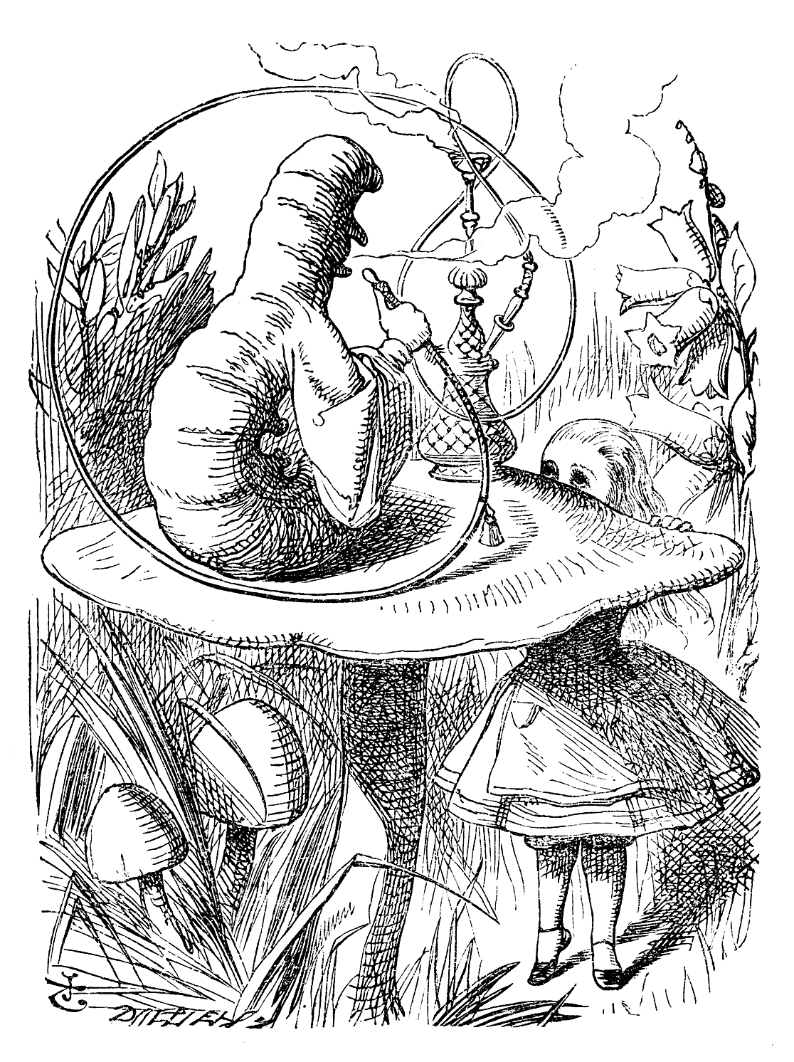 The Caterpillar. One of John Tenniel's illustrations from the first edition of Alice's Adventures in Wonderland (1865). The illustration is noted for its ambiguous central figure, whose head can be viewed as being a human male's face with pointed nose and protruding lower lip or being the head end of an actual caterpillar, with the right three "true" legs visible. ("And do you see its long nose and chin? At least, they look exactly like a nose and chin, don't they? But they really are two of its legs. You know a Caterpillar has got quantities of legs: you can see more of them, further down." (Carroll, Lewis. The Nursery "Alice". Dover Publications (1966), p27.)